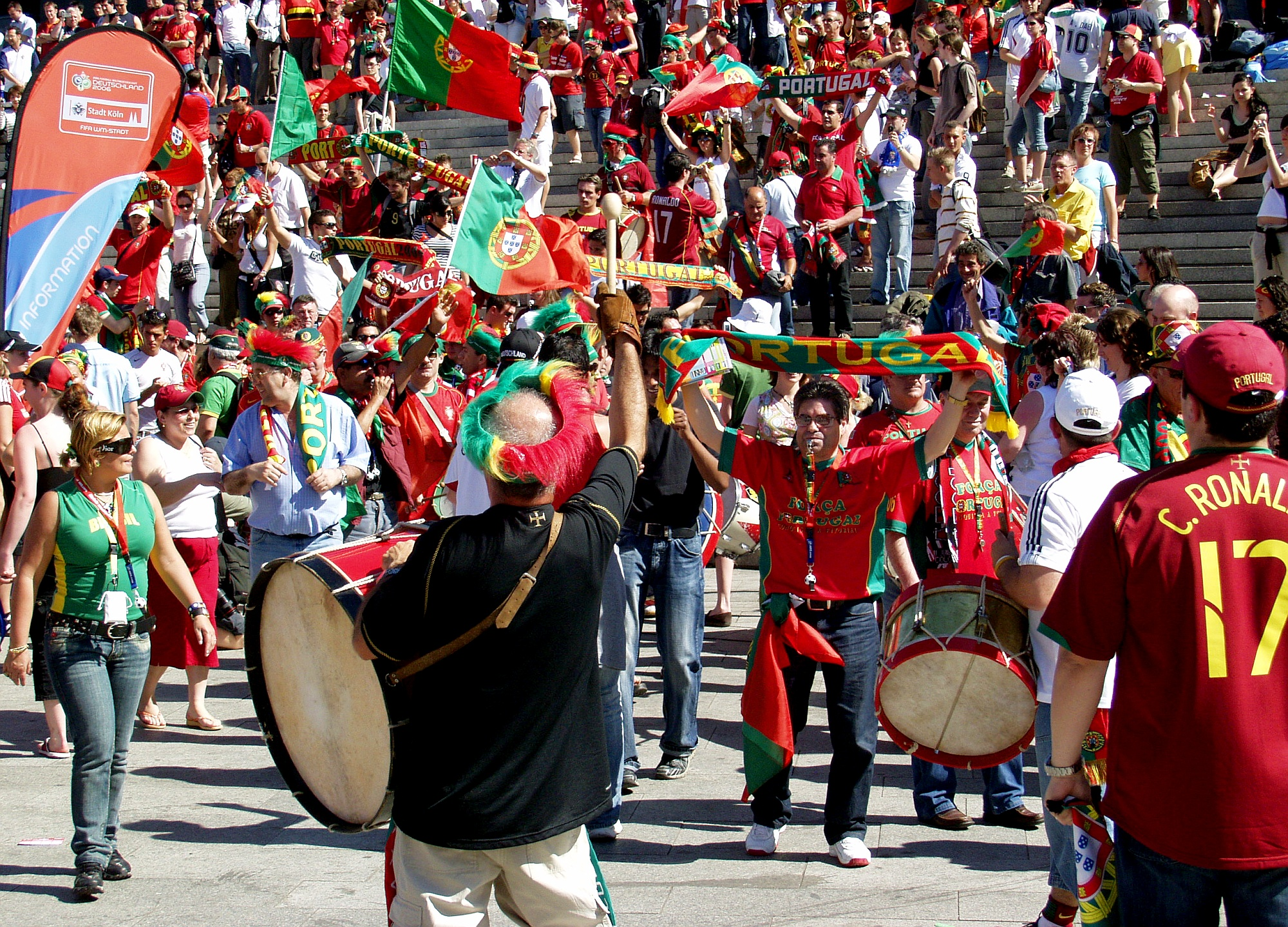 Fans of the Portuguese national football team in Cologne, between main station and Cologne Cathedral.